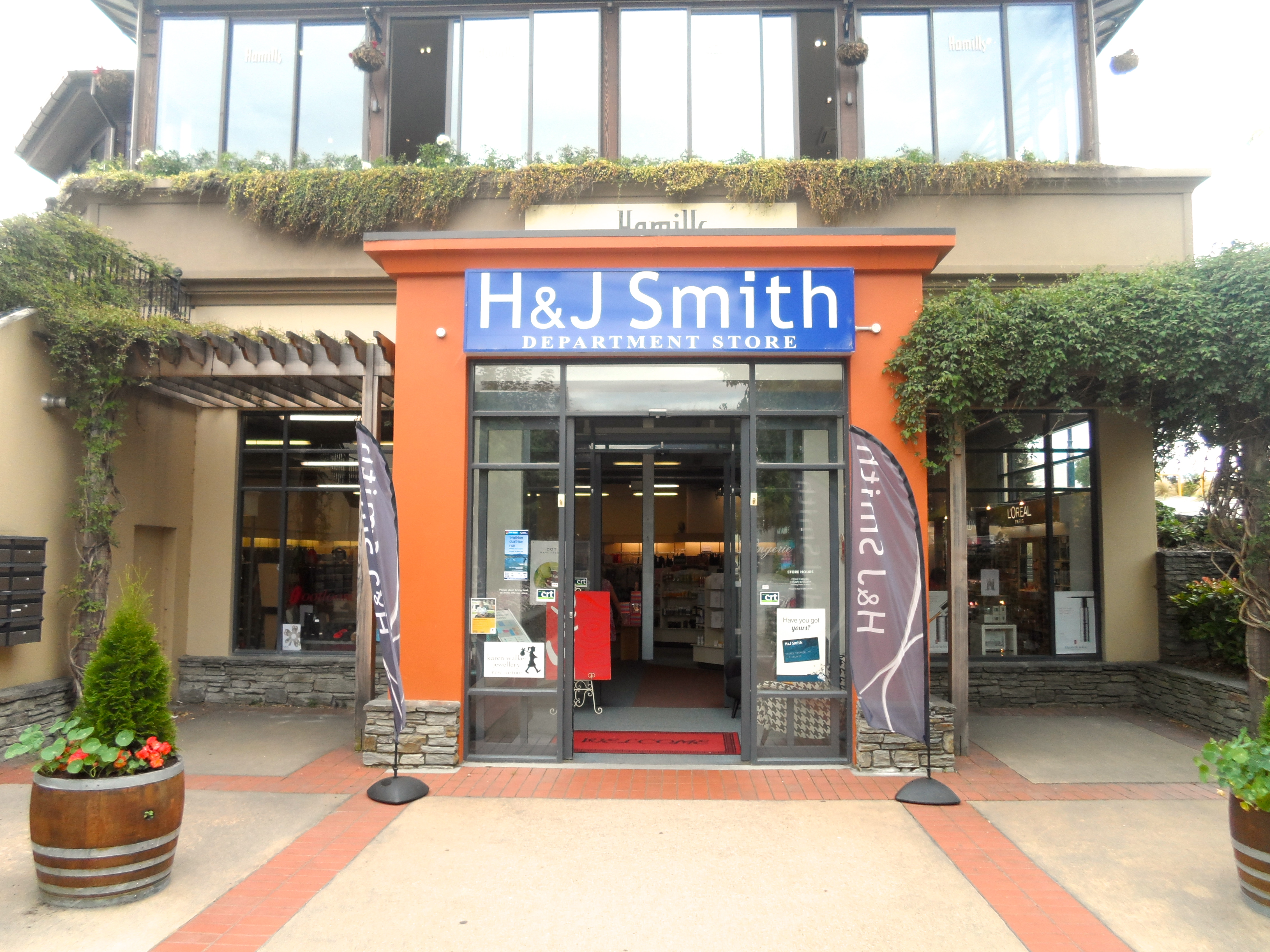 H & J Smith Remarkables Park store in Frankton, New Zealand February 2013.